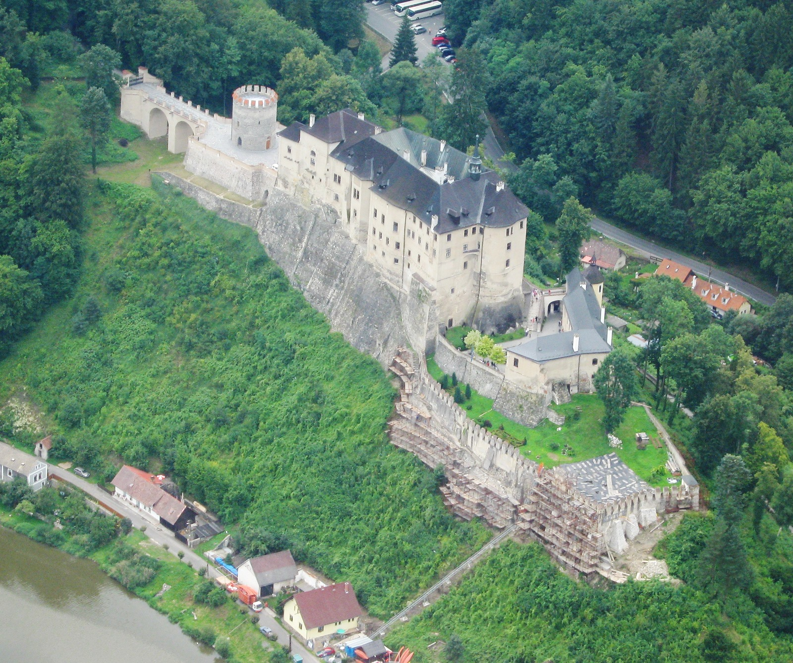 The Český Šternberk castle photographed from airplane.